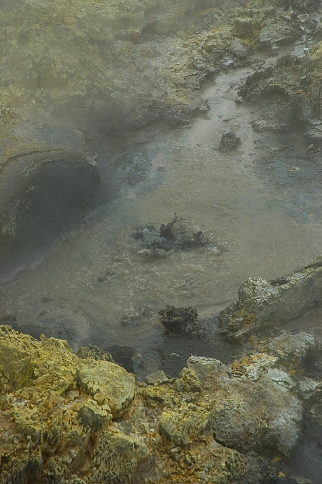 Mud pool at Tikitere ("Hell's Gate"), Rotorua, New Zealand (21 January 2005). Photograph by James Shook, who retains copyright and releases the image under the license shown below.